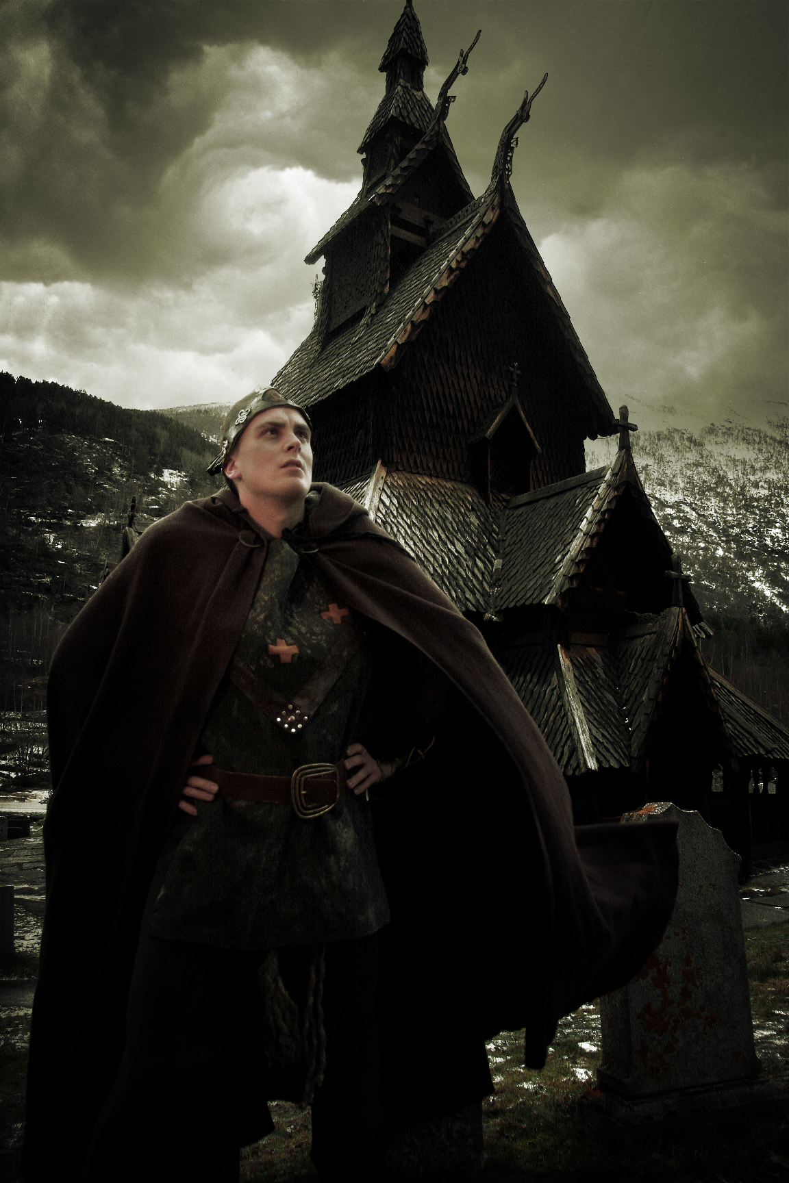 Taken by Borgund Stavkyrkje, Sogn og Fjordane, Norway (Borgund Stavechurch, Norway)